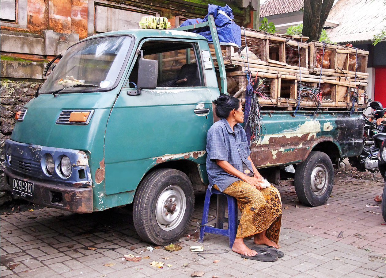 Facelifted first generation Mitsubishi Delica (Colt T120) in the market in Ubud, Bali, Indonesia. A bit beat up, sadly.